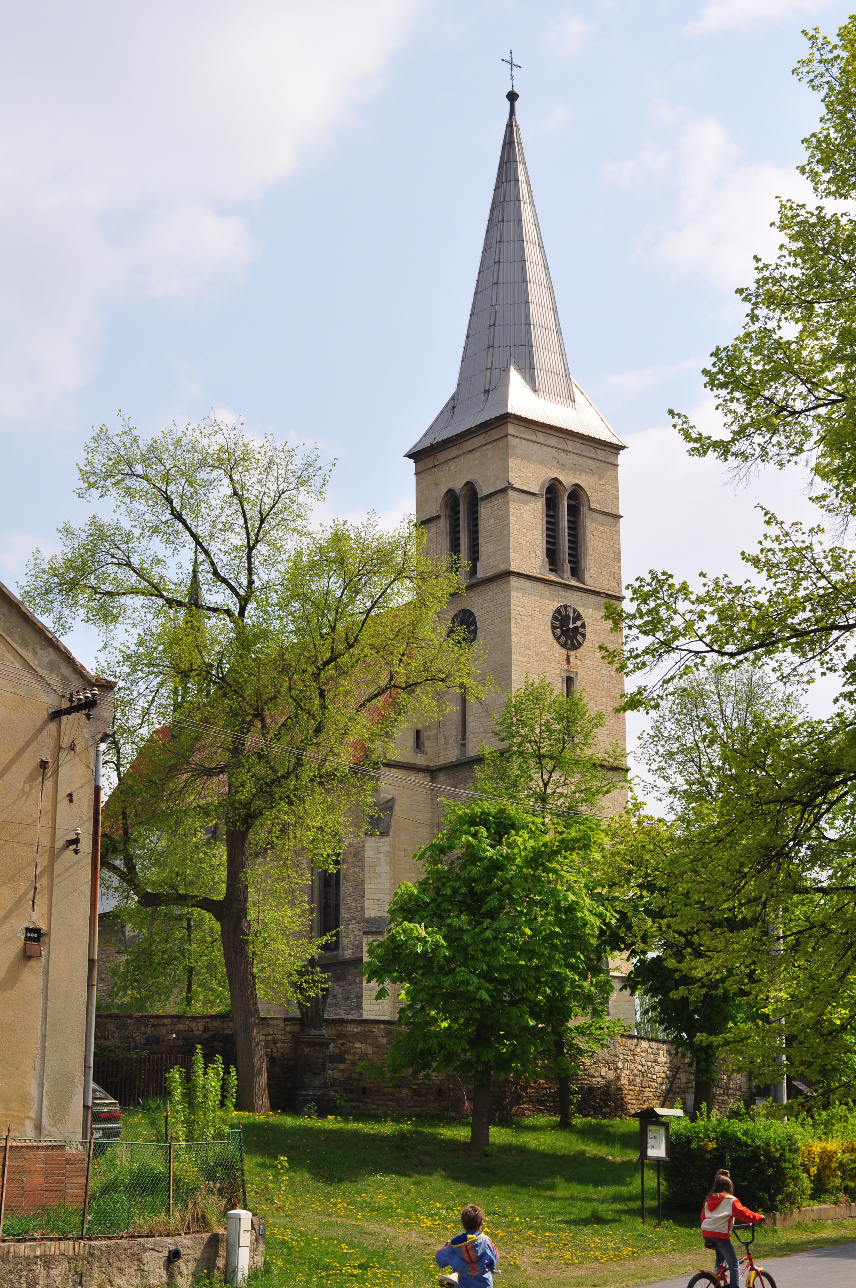 Radonice nad Ohří - Feast of the Cross Church